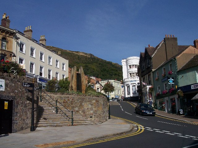 The top of Church Street. Taken from outside the post office. The Elgar statue and the Enigma Fountain are in the centre of the picture. The bow fronted white building was the Royal Library. Built in 1819 this one building, being an added attraction for visitors, may have influenced the development of Great Malvern over Malvern Wells.